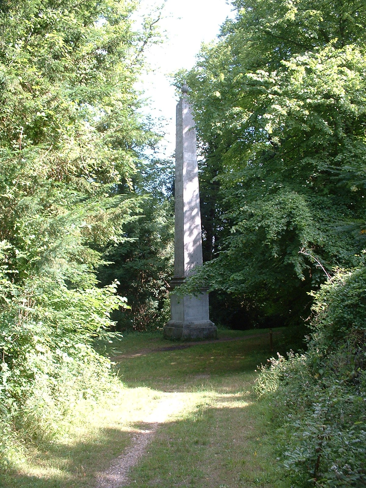 Tring Park, Hertfordshire, the obelisk